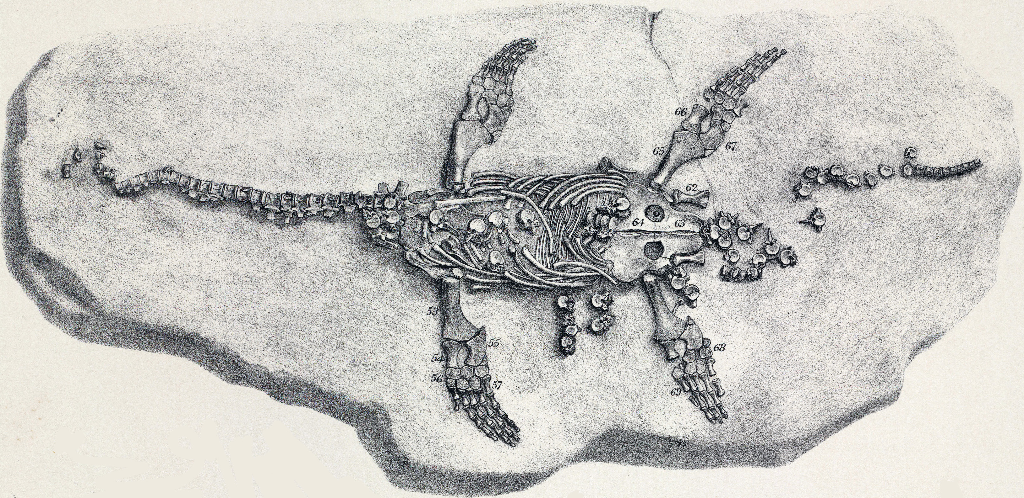 Skeleton of Eretmosaurus Fig. 1. Skeleton of Plesiosaurus rugosus, 1-14th nat. size. Fig. 2. Bones of forearm, carpus, and metacarpus, of ditto; in outline, 1-6th nat. size. Fig. 3. Bones of leg, tarsus, and metatarsus, of ditto; in outline, 1-6th nat. size. Fig. 4. Bones of forearm, carpus, and metacarpus, of Plesiosaurus macrocephalus; in outline, 1-6th nat. size. Fig. 5. Bones of forearm, carpus, and metacarpus, of Plesiosaurus dolichodeirus; in outline, 1-6th nat. size. Fig. 6. Bones of forearm, carpus, and metacarpus, of Plesiosaurus Hawkinsii; in outline, 1-6th nat. size. The skeleton of the Plesiosaurus rugosus is from the Lower Lias of Leicestershire. In the British Museum.